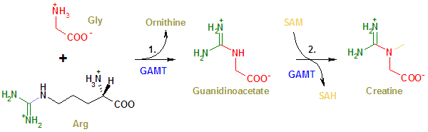 Edited creatine synthesis picture with fixed term